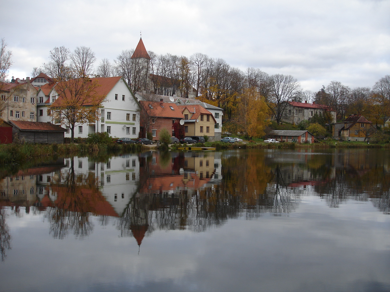 Talsi. Latvia.